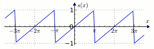 A sawtooth wave with period 2π described by the formula s ( x ) = 2 ( x 2 π − ⌊ x 2 π + 1 2 ⌋ ) {\displaystyle s(x)=2\left({\frac {x}{2\pi -\left\lfloor {\frac {x}{2\pi +{\frac {1}{2 \right\rfloor \right)}